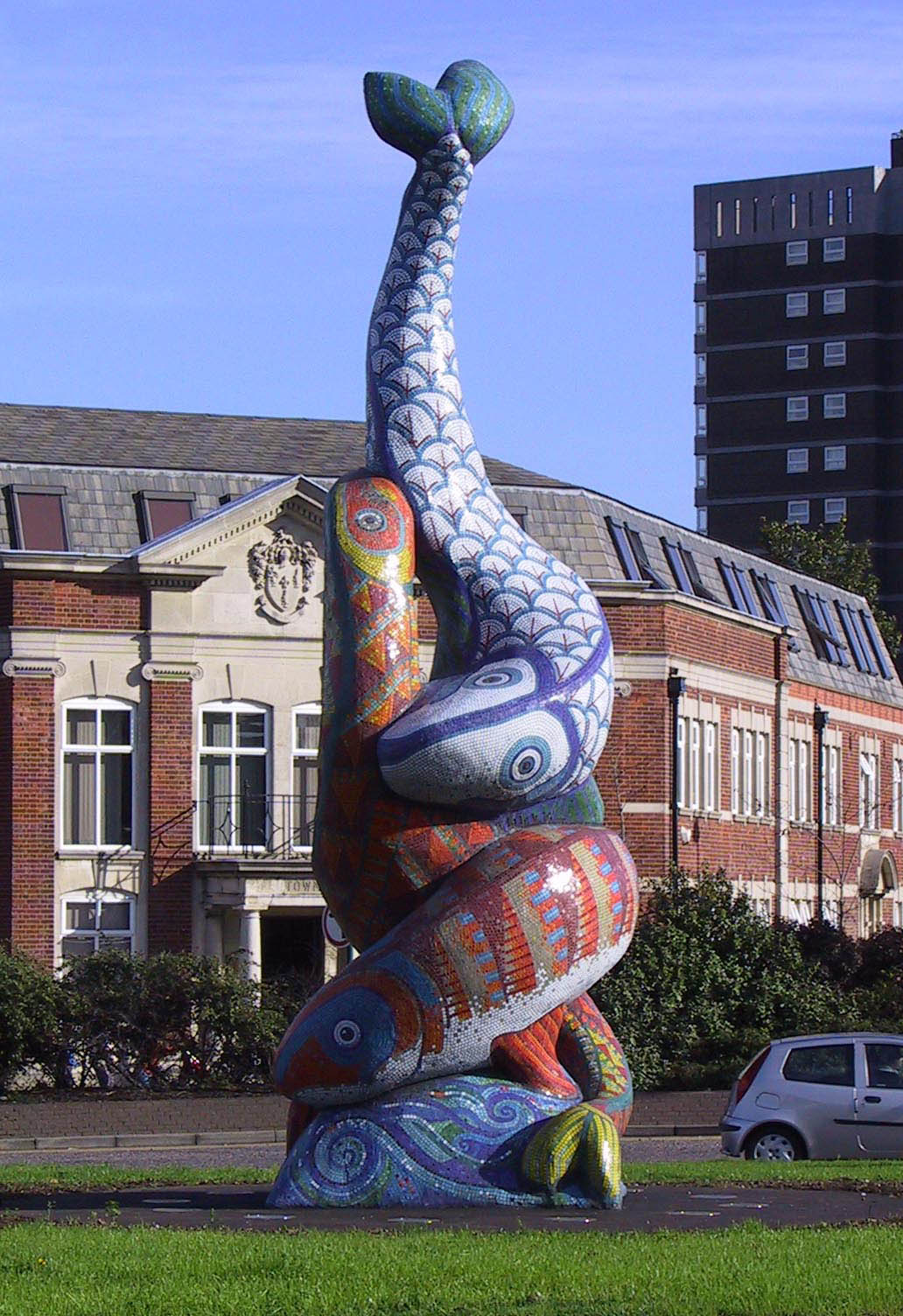 'The De Luci (dancing) Fish' mosaic sculpture on Bronze Age Way roundabout in Erith, Kent by artist Gary Drostle.